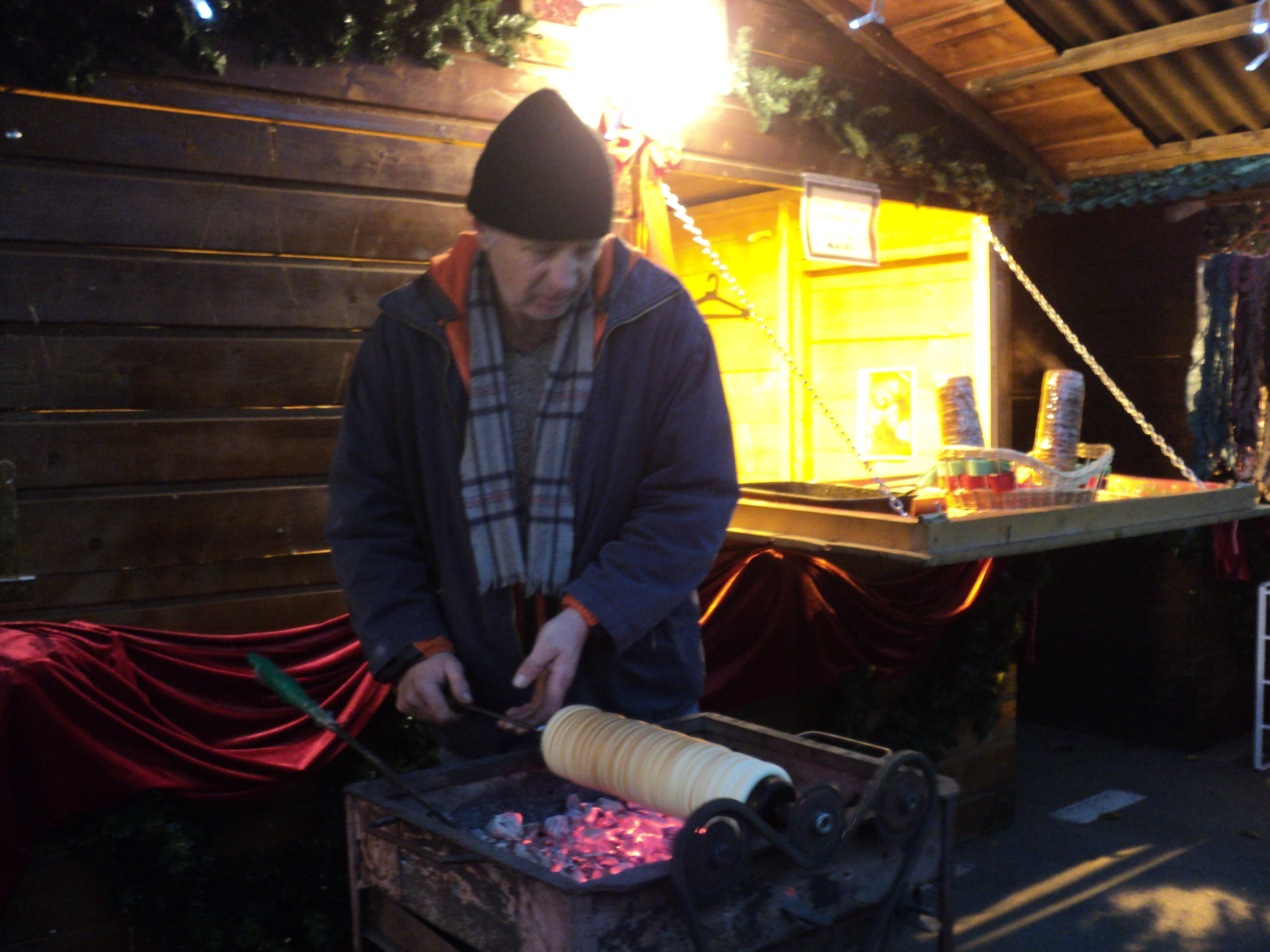 Kürtős Kalács Kürtőskalács or kürtős kalács (Hungarian pronunciation: [ˈkyrtøːʃ ˈkɒlaːtʃ]) is a Hungarian[1] pastry also known as chimney cake or stove cake. It is baked on a tapered cylindrical spit over an open fire. In the past decades, it became popular to bake it in special gas- and electric ovens. The kürtőskalács originates from Transylvania (Hungarian: Erdély)[2][3]a historical region, which used to be part of Hungary, in present-day Romania with a sizable Hungarian population. The name derives from the Hungarian words kürtő, that refers to chimney or 'wide pipe length', and kalács, meaning "milk-loaf". Kürtőskalács is sold in bakeries and pastry shops, and even street vendors are selling them on street corners, at carnivals, and fairs. Kürtőskalács consists of a thin yeast pastry ribbon wound around a wooden cylinder, heavily sprinkled with sugar, thus becoming a helix-shaped pastry which may taper very slightly towards the end. The pastry is baked on a hand-turned, tapered, wooden spit, rolled slowly on the wooden cylinder above an open fire. The dough is yeast-raised, flavored with sweet spices, the most common being cinnamon, topped with walnuts or almonds, and sugar. The sugar is caramelized on the kürtőskalács surface, creating a sweet, crispy exterior, and a soft, smooth interior.